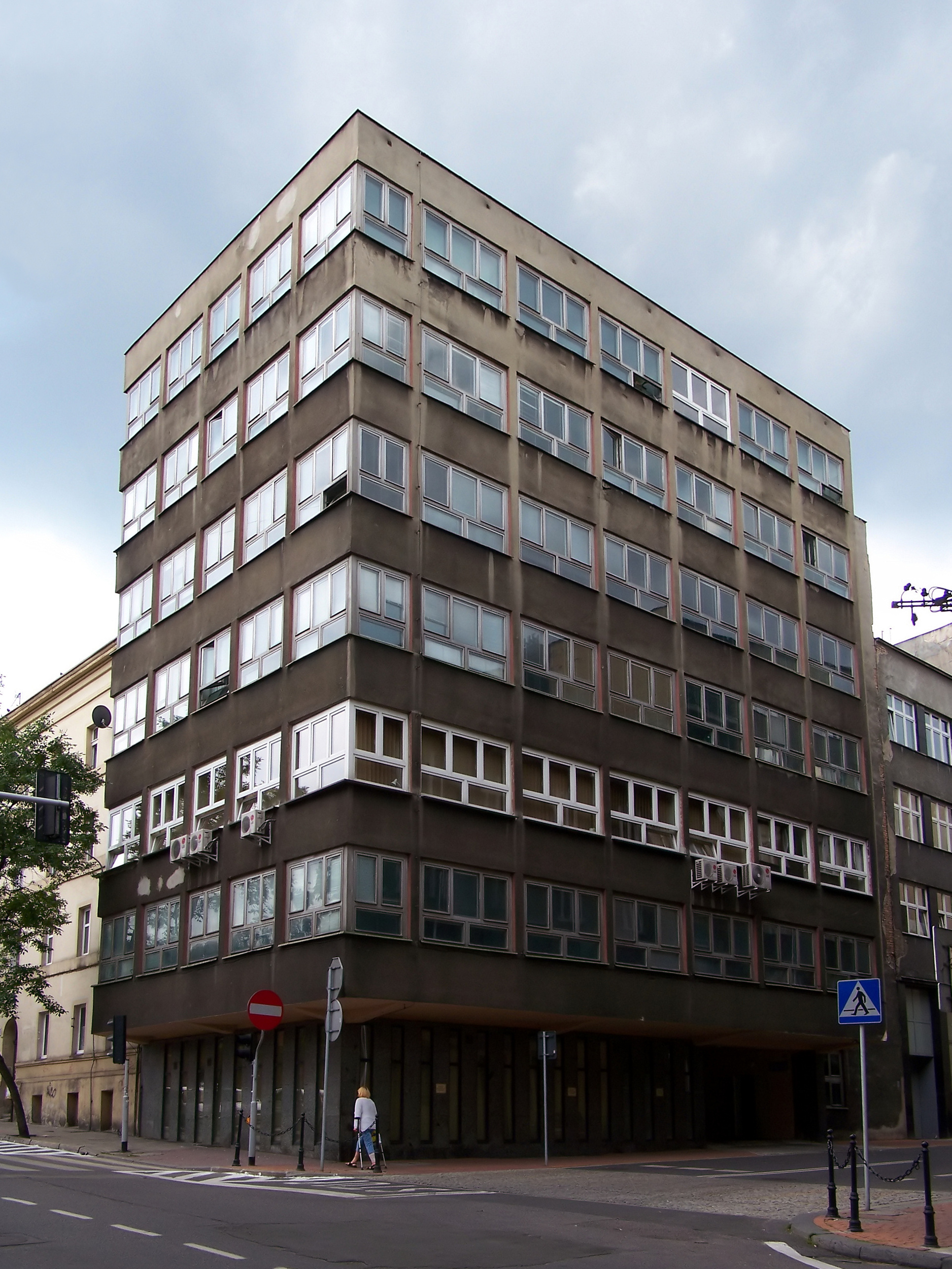 Modern house in Katowice (Poland).